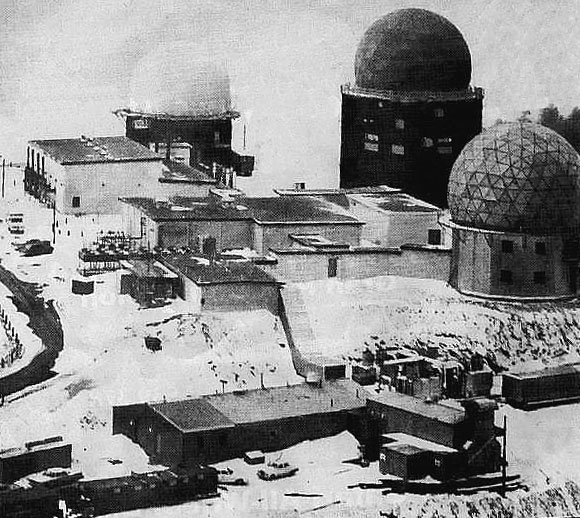 Photo of PM-1 Nuclear Power Plant